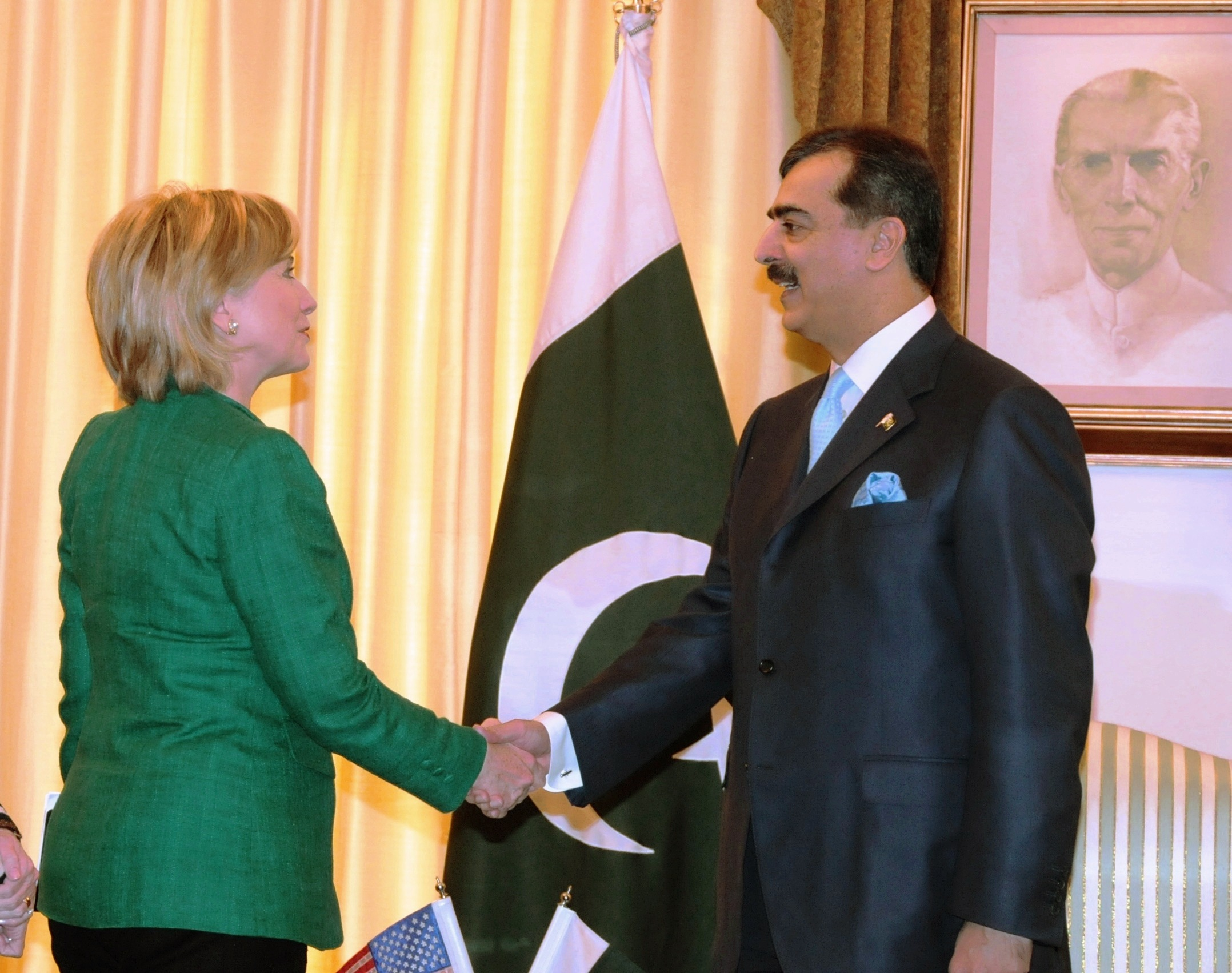 U.S. Secretary of State Hillary Rodham Clinton welcomed by Prime Minister of Pakistan Yousaf Raza Gillani at the Prime Minister's House.